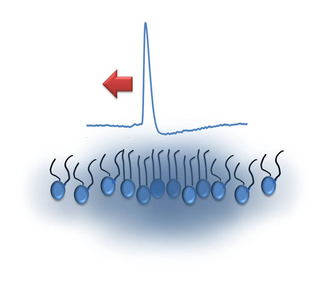 A nonlinear sound wave, with a narrow positive bipolar shape, observed to propagate in a pure lipid monolayer. The optical measurement employed voltage sensitive fluorescence phenomenon to measure the coupled voltage and density variations near a phase transition. The pulse has a threshold for excitation and a maximum amplitude, both governed by the thermodynamics of phase transition in lipid systems.